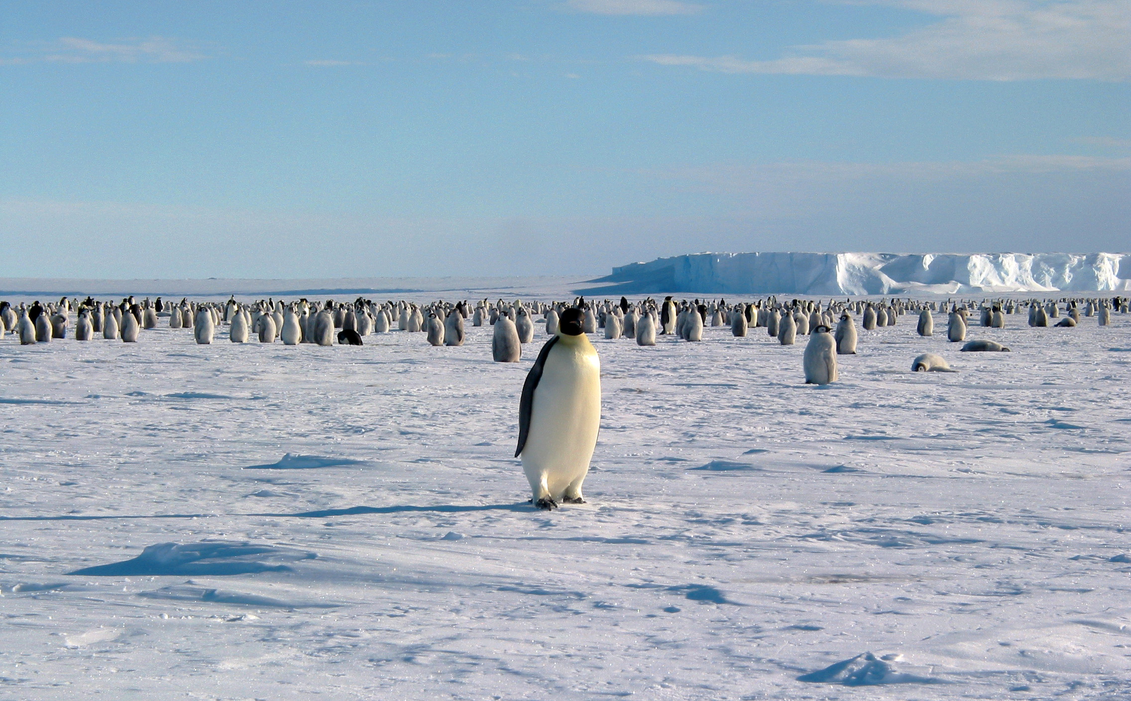 Emperor Penguin, Atka Bay, Weddell Sea, Antarctica